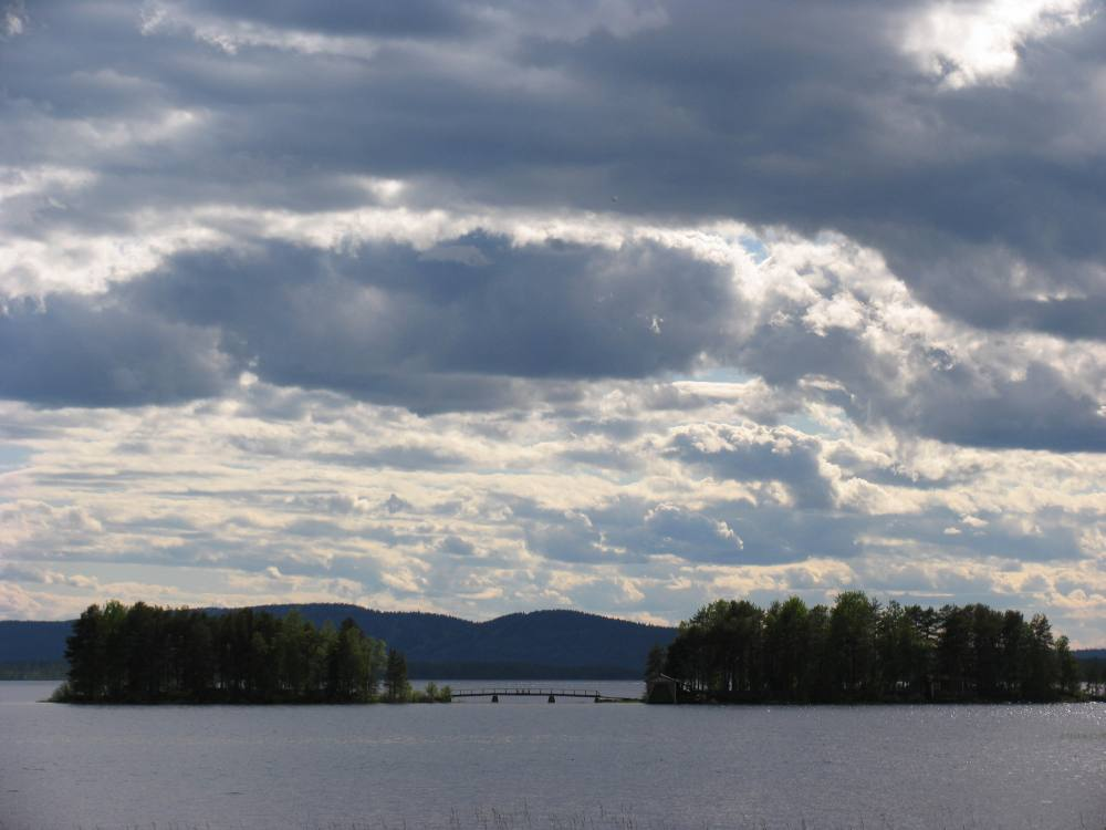 Islands of the Lake Pielinen in Vuonislahti, Lieksa, Finland